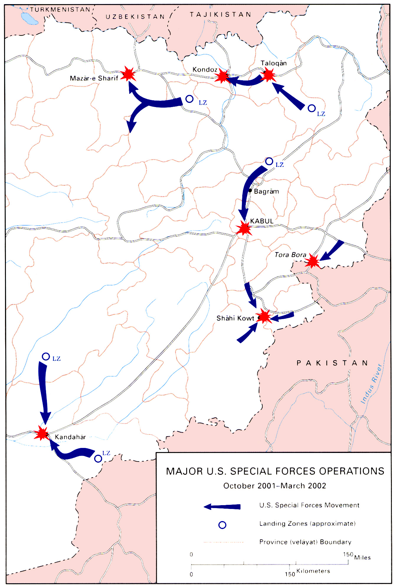 Map of major United States Special Forces Operations from October 2001 to March 2002 including Afghani velayat borders